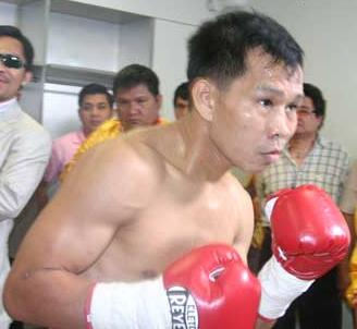 Picture of filipino boxer Gerry Peñalosa